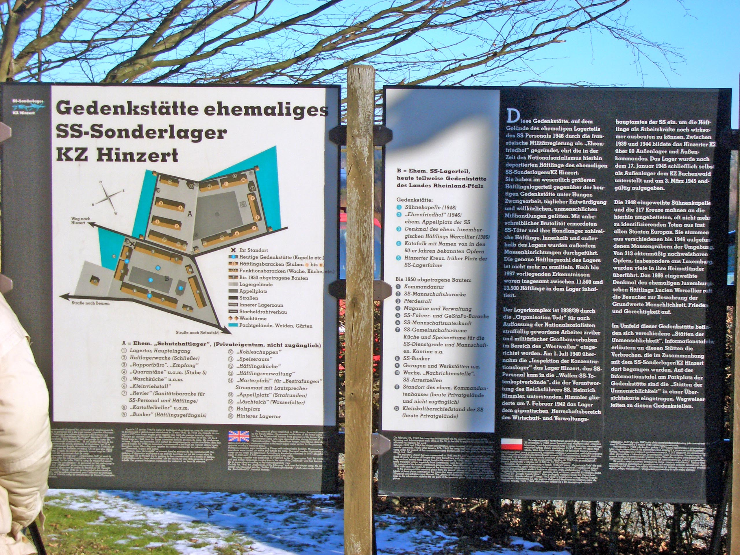 Hinzert concentration camp map